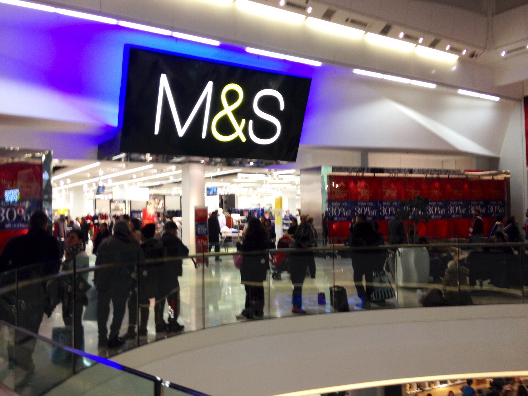 A picture of M&S White City branch in Westfield London